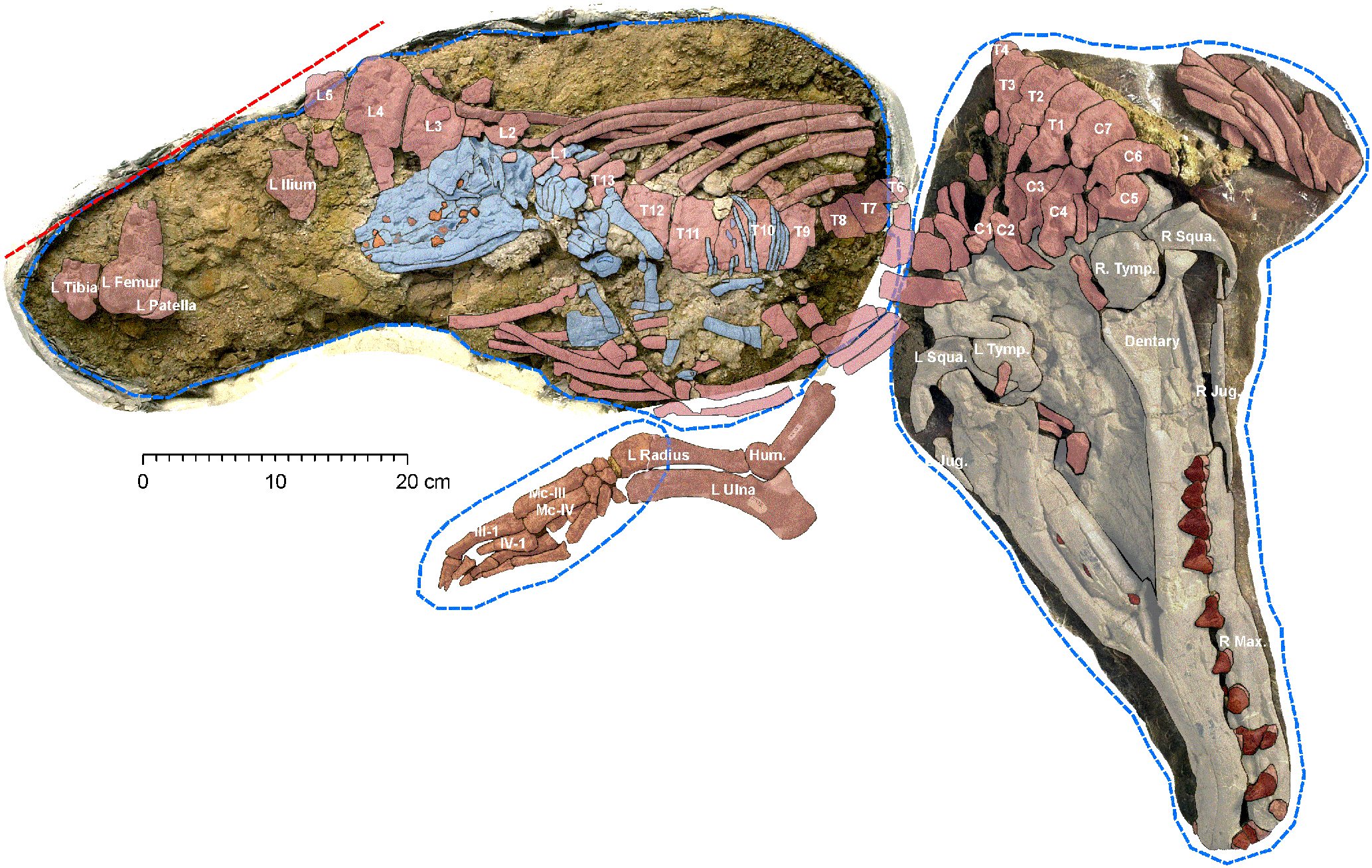 Adult female and fetal skeletons (type) of the protocetid Maiacetus inuus